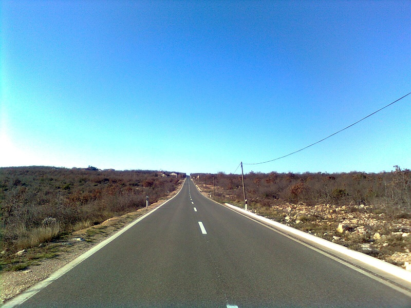 Main Road throught Slivnica